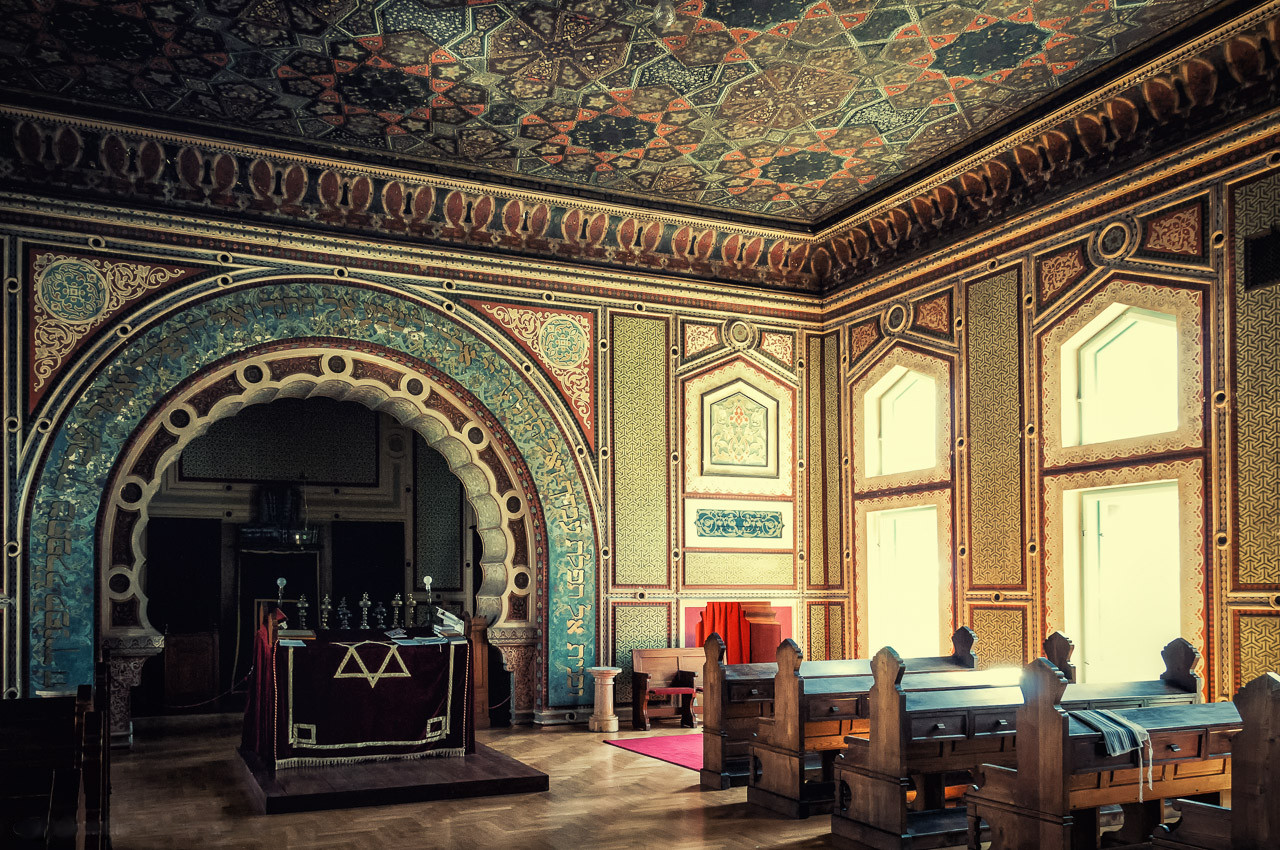 Not unlike other Eastern European countries, notably Hungary or Poland, Bosnia too is now merely a shadow of its former glory of rich cultural diversity, with its currently empty synagogues, having been drained of a sizable portion of its brainpower, a victim of unifying and simplifying nationalism. In the photo, Aškenaška sinagoga - the only functioning synagogue in Sarajevo, in the Moorish Revival (neo-Moorish) style, a popular choice for synagogues in the Austro-Hungarian Empire. [6] Full gallery